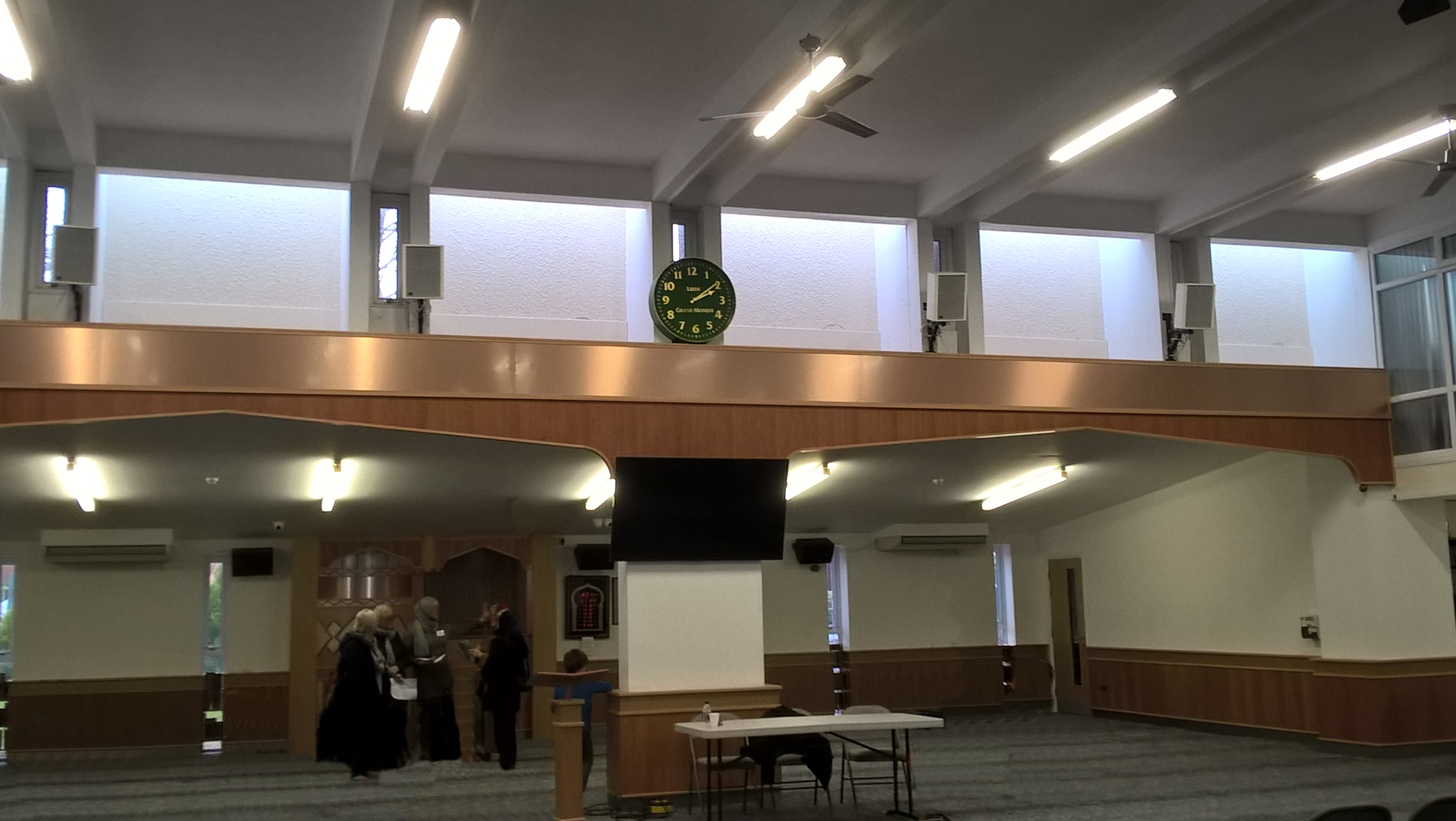 Main Hall of Leeds Grand Mosque, Woodsley Road, Leeds LS3. Visit My Mosque daay 18 Feb 2018. Edited to remove children.